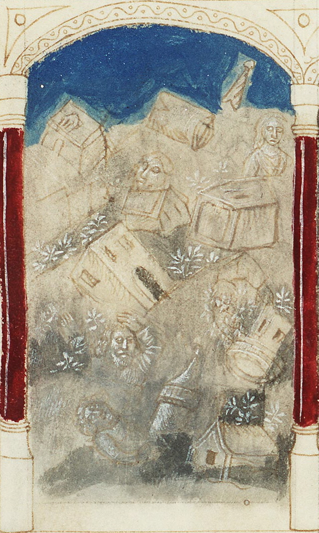 Datan and Abiram Devoured by the Earth, by Hesdin of Amiens, illumination from a "Biblia Pauperum" (Bible of the Poor), manuscript "Den Haag, MMW, 10 A 15", at Museum Meermanno Westreenianum, The Hague